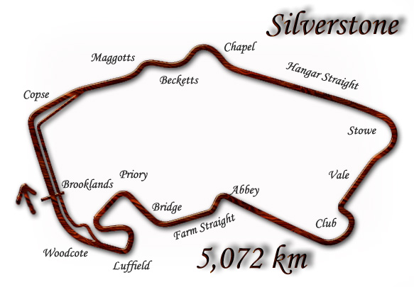 Diagram of the Silverstone Circuit following changes made in 1996. Used for Britsh Grand Prix in 1996.